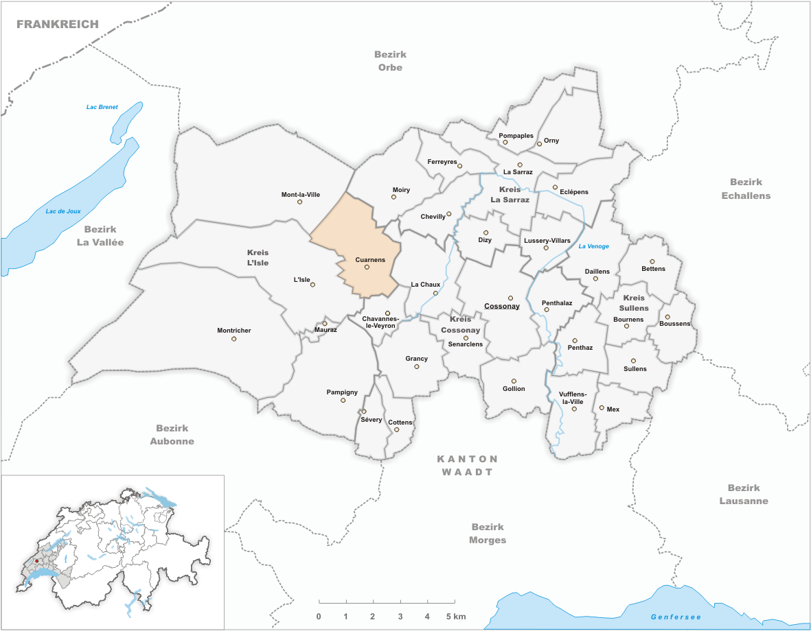 Municipality Cuarnens